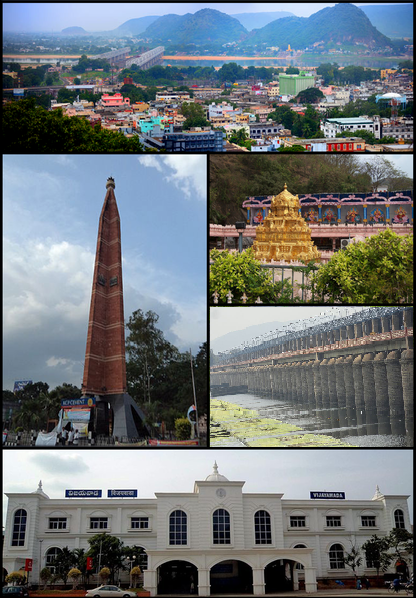 Montage of Vijayawada with Images from wikimedia commons